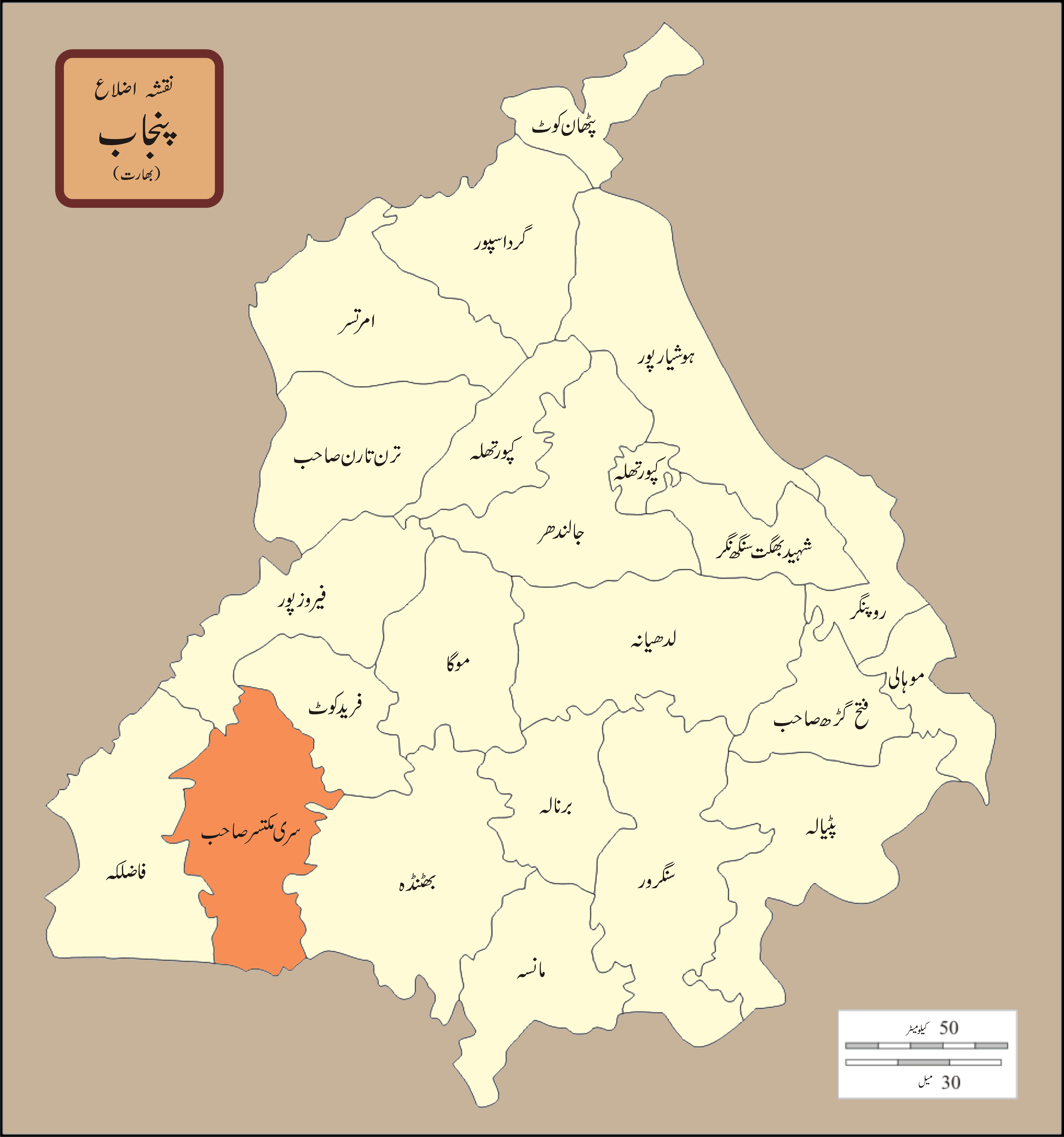 Punjab India Dist Sri Muktsar Sahib (Urdu)